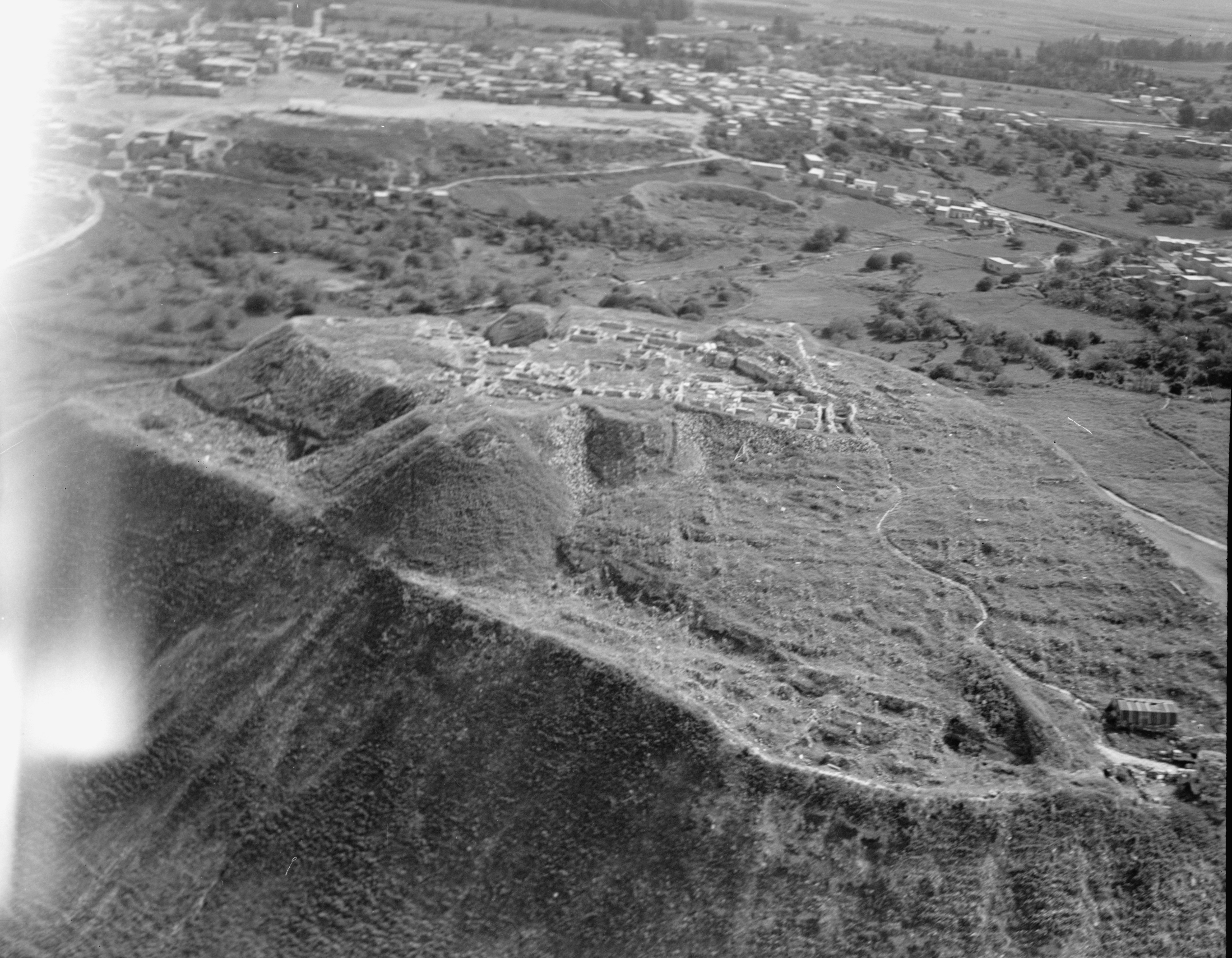 Title: Air films (1937). Beisan mound Abstract/medium: G. Eric and Edith Matson Photograph Collection Physical description: 1 negative